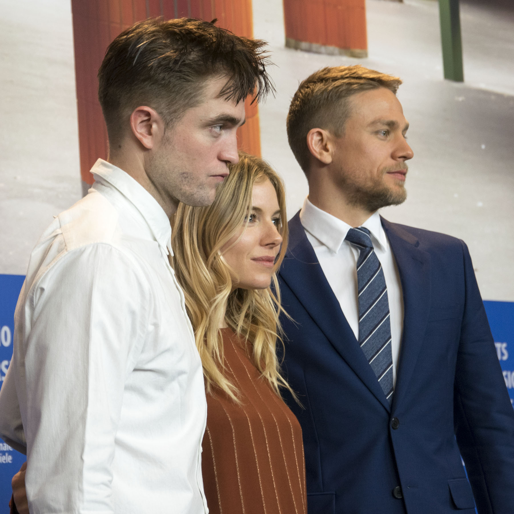 Robert Pattinson, Sienna Miller, Charlie Hunnam at the press conference of the film The Lost City of Z at the 2017 Berlin International Film Festival